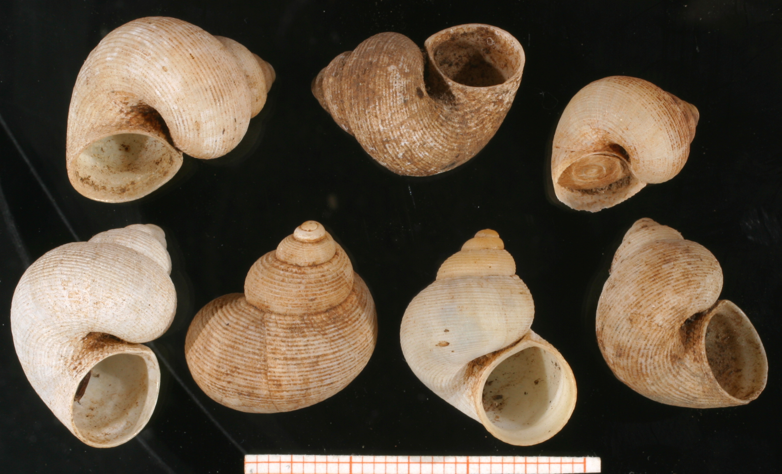 Pomatis rivularis (Eichwald, 1829), Pomatiidae, Littorinoidea, Sorbeoconcha, Gastropoda, Demre, Vilayet Antalya, Turkey